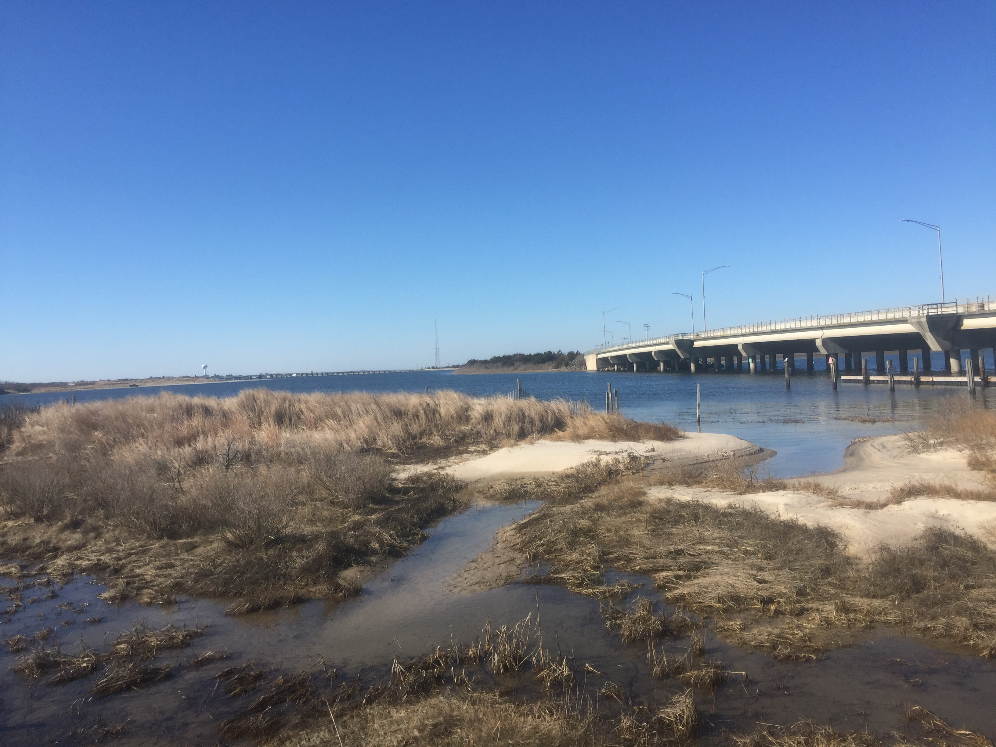 View of Corson’s Inlet State Park and Russ Chattin bridge, which carries Ocean Drive between Ocean City and Strathmere in New Jersey.